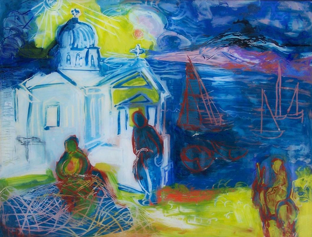 On Mykonos, reverse painting on glass, 65x50 cm, WV-Nr. 3066